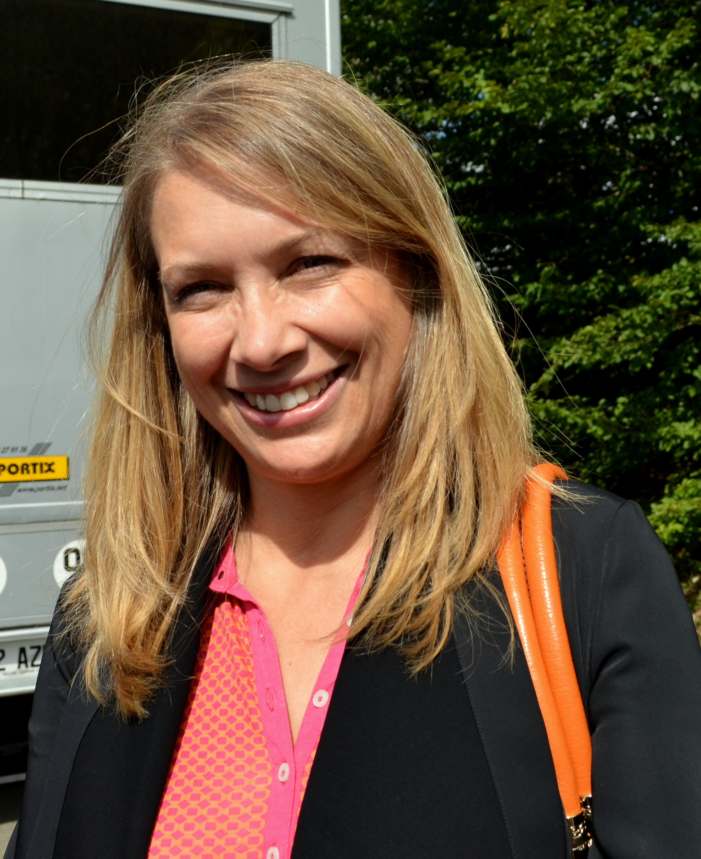 Tour de l'Ain 2014 - Stage 4 (finish, Arbent).